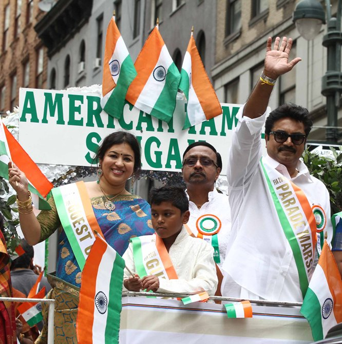 Journalist Swamy with $25,000 missing in his Charitable Foundation being paraded with Sarath Kumar & Radhika Sarath Kumar